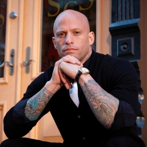 Ami james